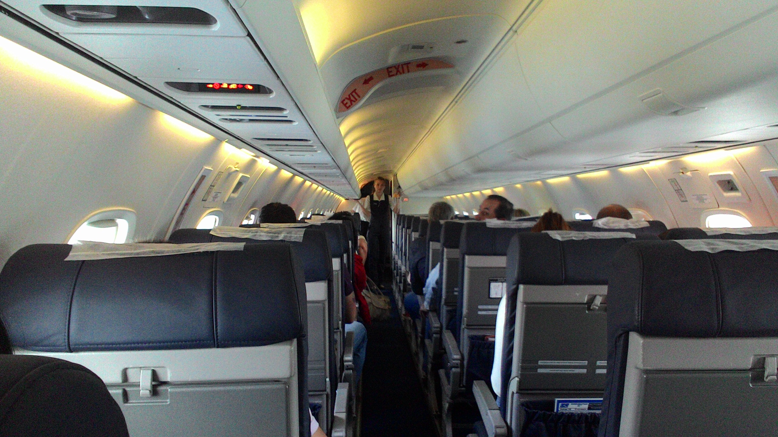 KomiAviaTrans' Embraer ERJ-145 at the Domodedovo airport